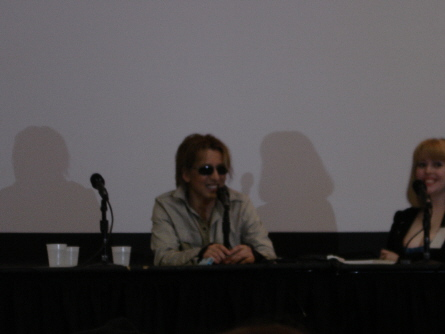 Yoshiki at the conference in Otakon